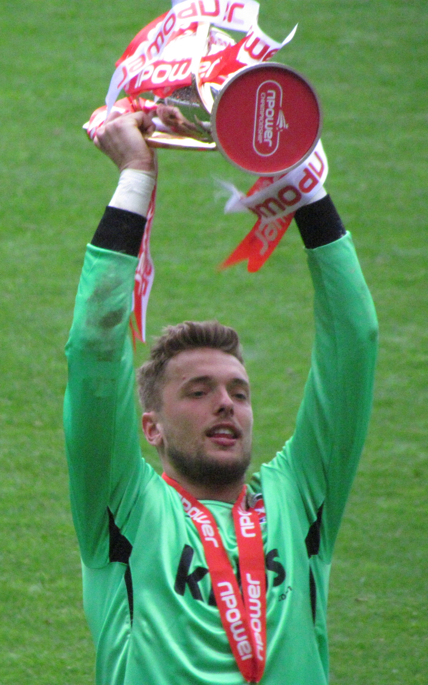 Ben Hamer after playing for Charlton Athletic against Hartlepool United at The Valley, London on 5 May 2012